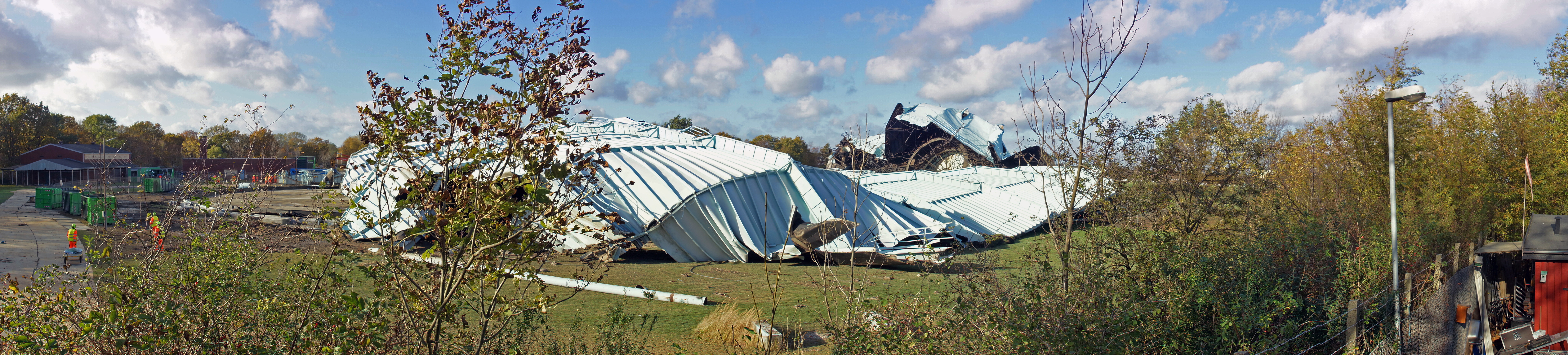 The gasometer Køgevejens Gasbeholder in Copenhagen, Denmark after demolition, November 4, 2012